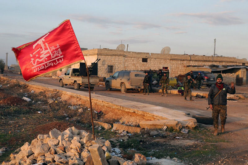 Syrian Army Breaks Several-Year-Long Siege of Nubl and Al-Zahra Towns